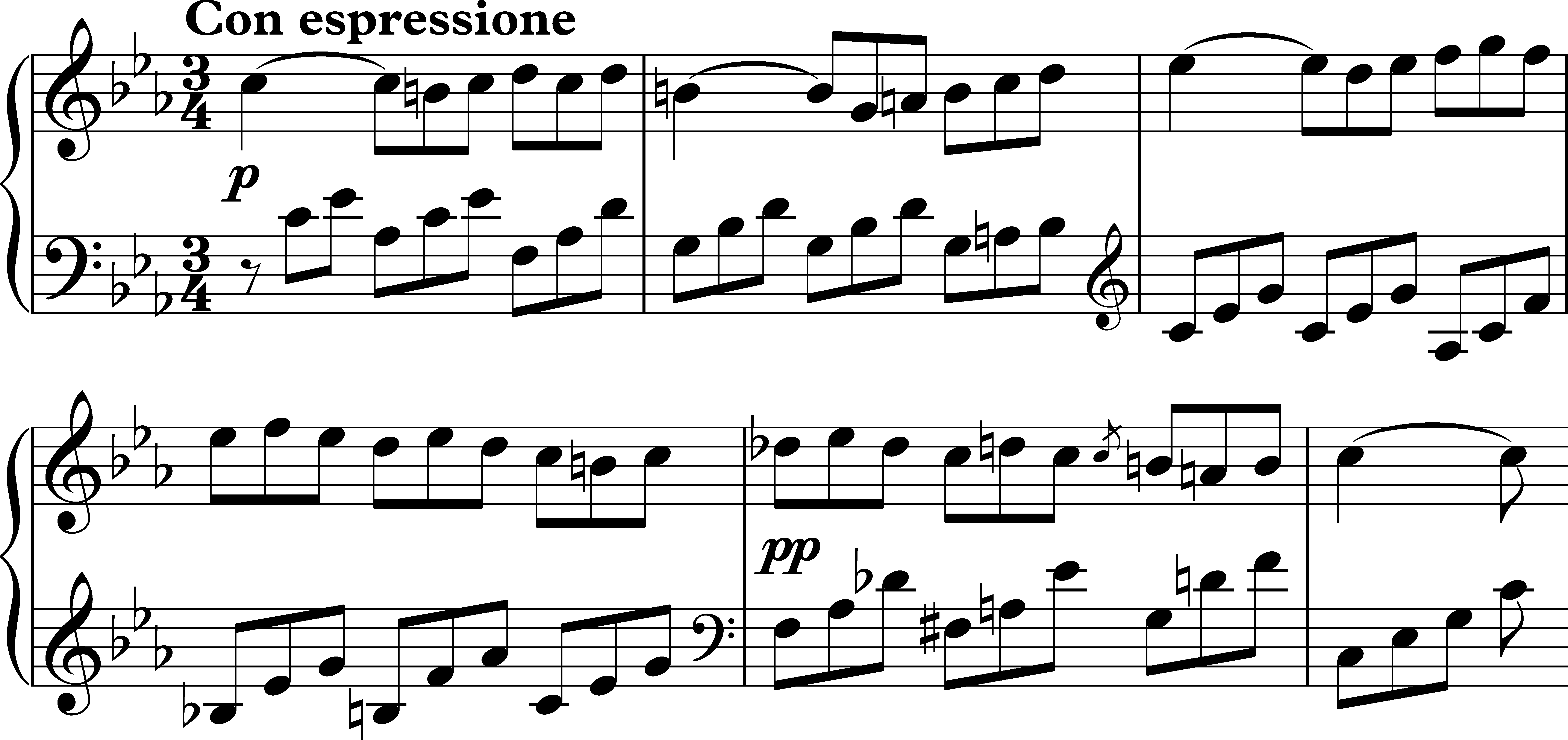 The opening of Vth of Beethoven's Seven Variations on "God Save the King" WoO 78 (1804) introduces Alberti bass patterns.